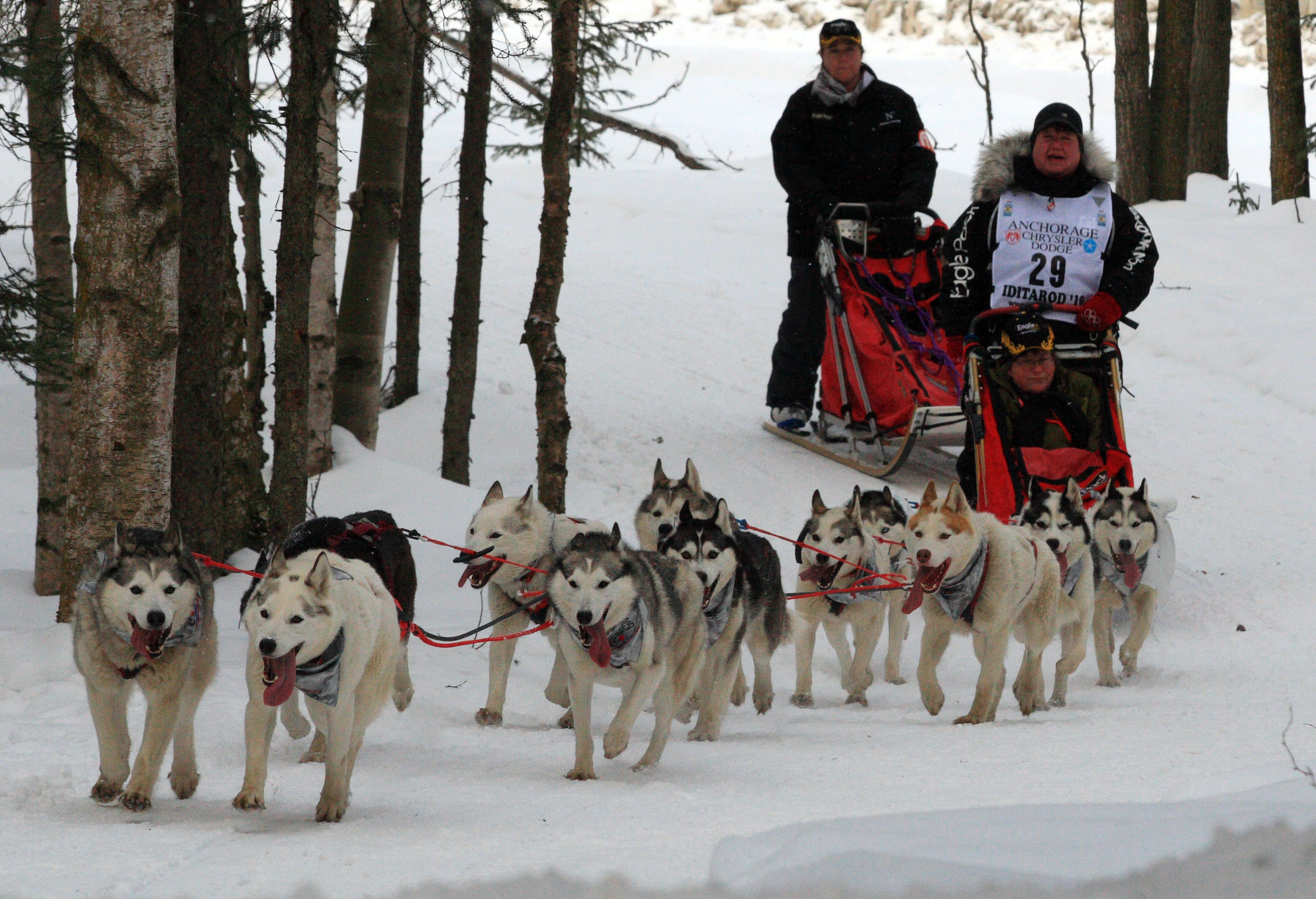 I took these photos on 6 March 2010 at the ceremonial start of the Iditarod dog sled race. The real start is from Willow. The Iditarod is known as "the last great race". It goes 1,100 miles from Willow to Nome through unforgiving terrain and downright nasty weather. I took these photos between Goose Lake and APU. What a great day to be an Alaskan!